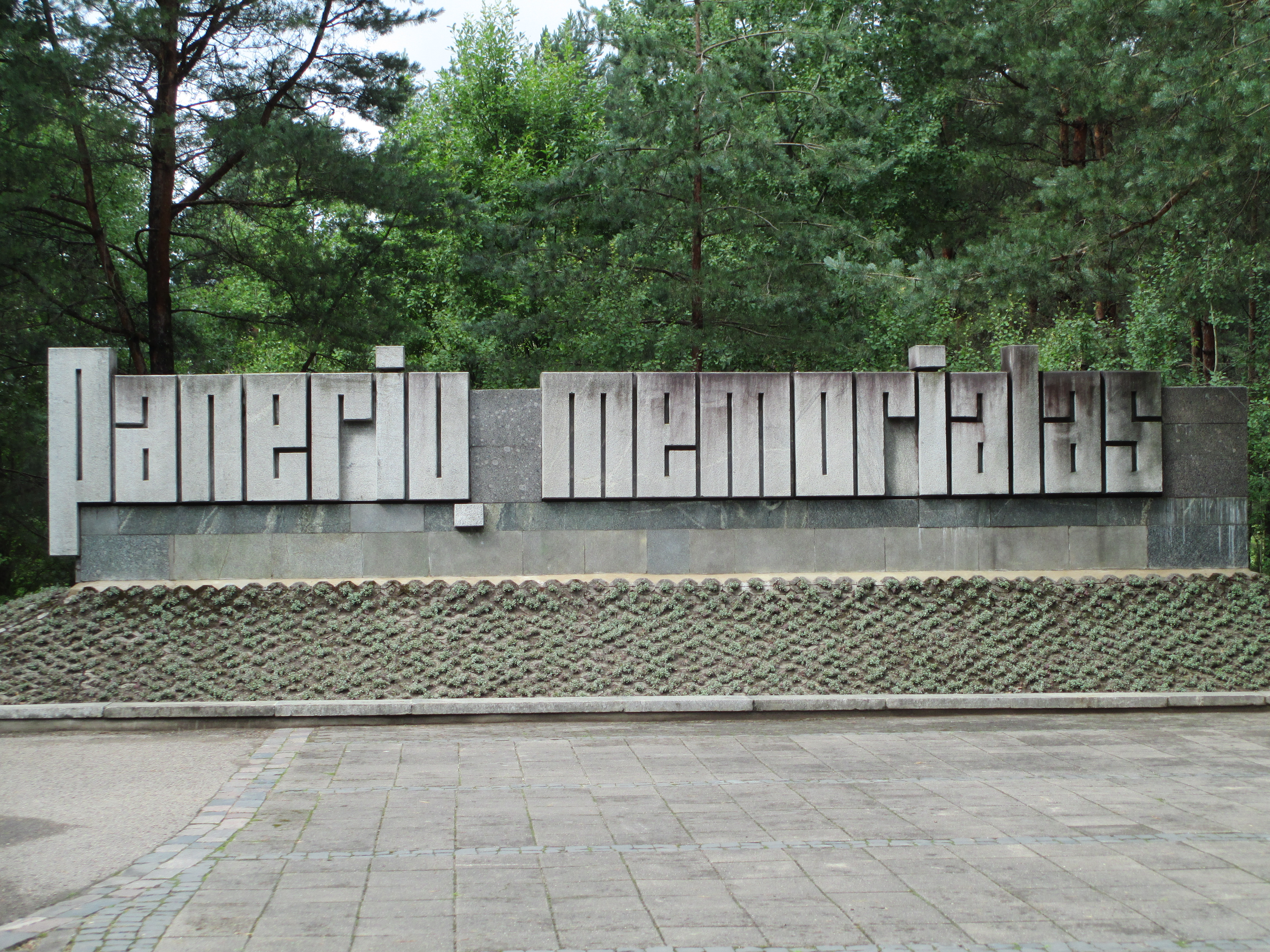 Entrance to ponar forest memorial near vilnius